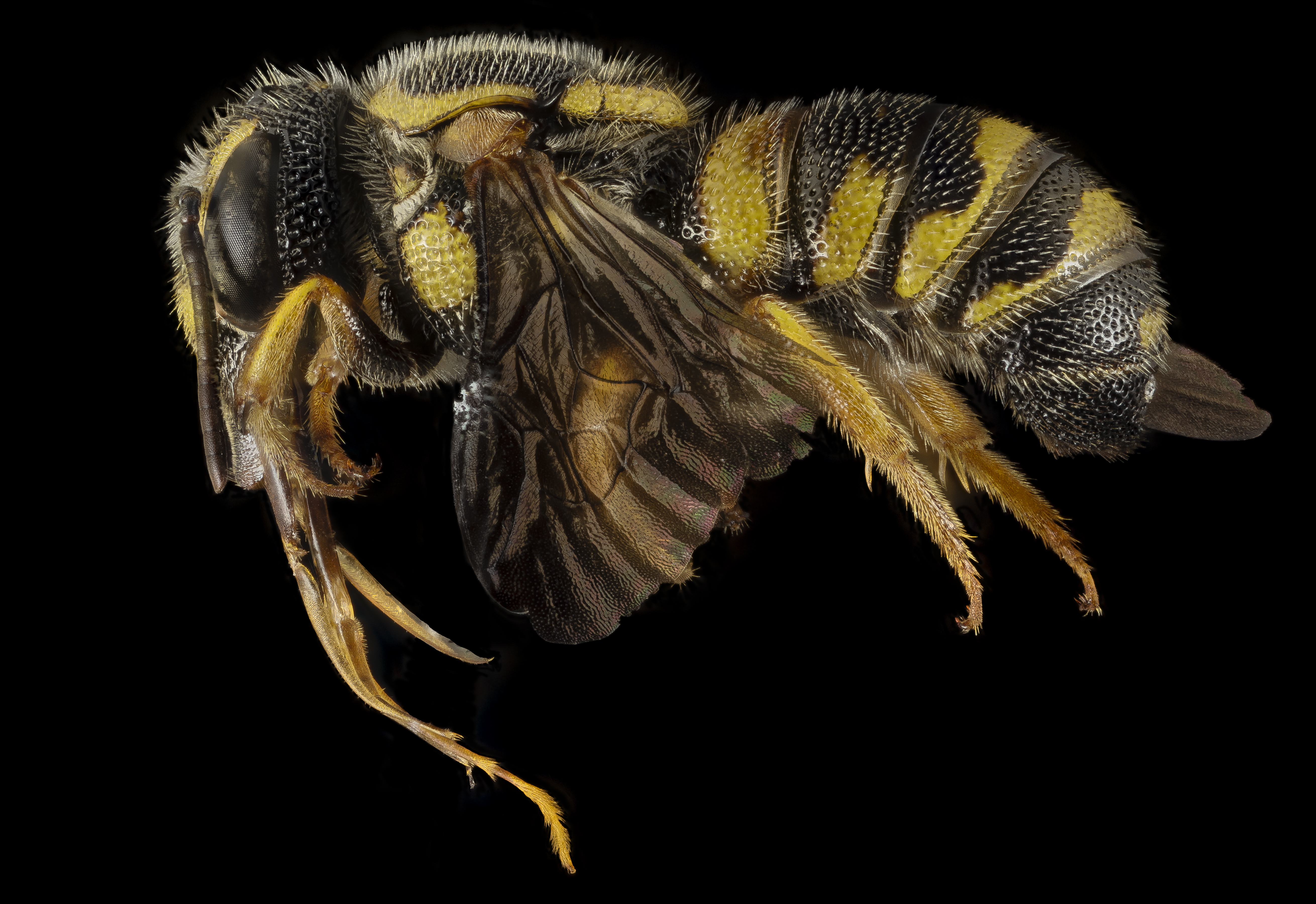 Nest parasite, yup, this is a bee, but one that invades the nests of leaf-cutting bees in the genus Megachile. This smart looking male was collected by bee girl Sabrie Breland in South Georgia near the Florida Border. Picture was taken by Brooke Alexander. All photographs are public domain, feel free to download and use as you wish. Photography Information: Canon Mark II 5D, Zerene Stacker, Stackshot Sled, 65mm Canon MP-E 1-5X macro lens, Twin Macro Flash in Styrofoam Cooler, F5.0, ISO 100, Shutter Speed 200 The grass so little has to do, A sphere of simple green, With only butterflies to brood, And bees to entertain, - Emily Dickinson Want some Useful Links to the Techniques We Use? Well now here you go Citizen: Basic USGSBIML set up: USGSBIML Photoshopping Technique: Note that we now have added using the burn tool at 50% opacity set to shadows to clean up the halos that bleed into the black background from "hot" color sections of the picture. PDF of Basic USGSBIML Photography Set Up: ftp://ftpext.usgs.gov/pub/er/md/laurel/Droege/How%20to%20Take%20MacroPhotographs%20of%20Insects%20BIML%20Lab2.pdf Google Hangout Demonstration of Techniques: or Excellent Technical Form on Stacking: Contact information: Sam Droege 301 497 5840